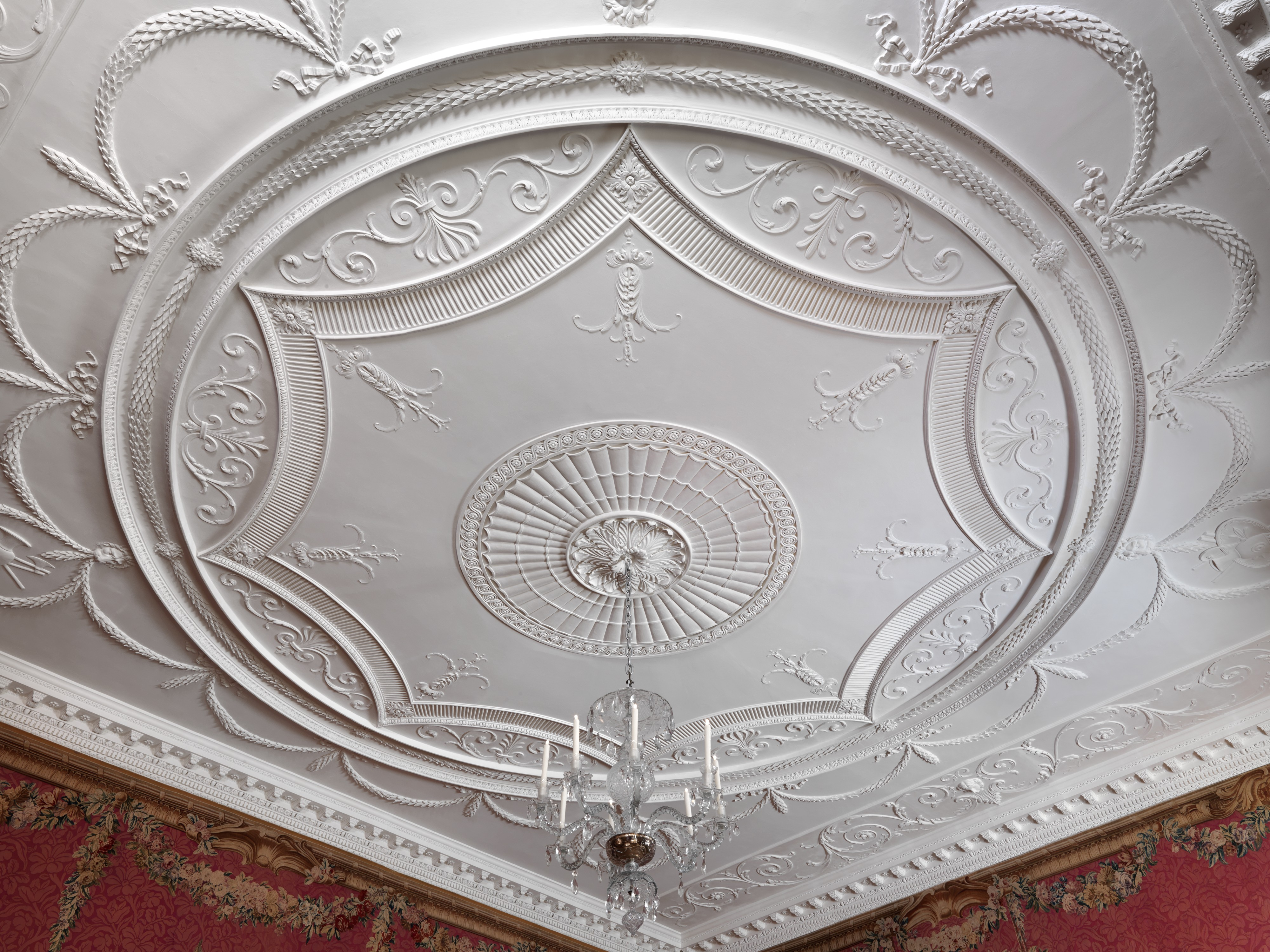 British, Worcestershire with French, Paris (Gobelins) tapestry; Period room; Woodwork